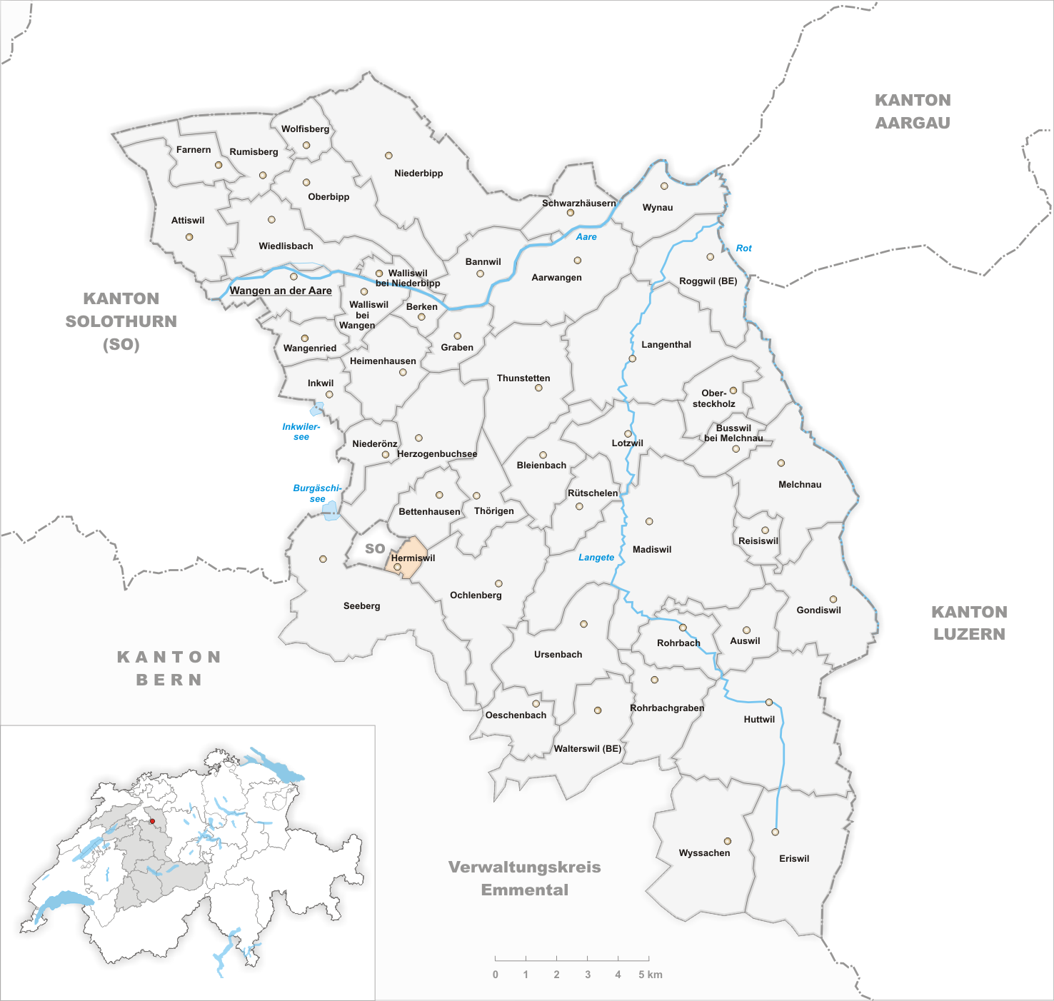 Municipality Hermiswil